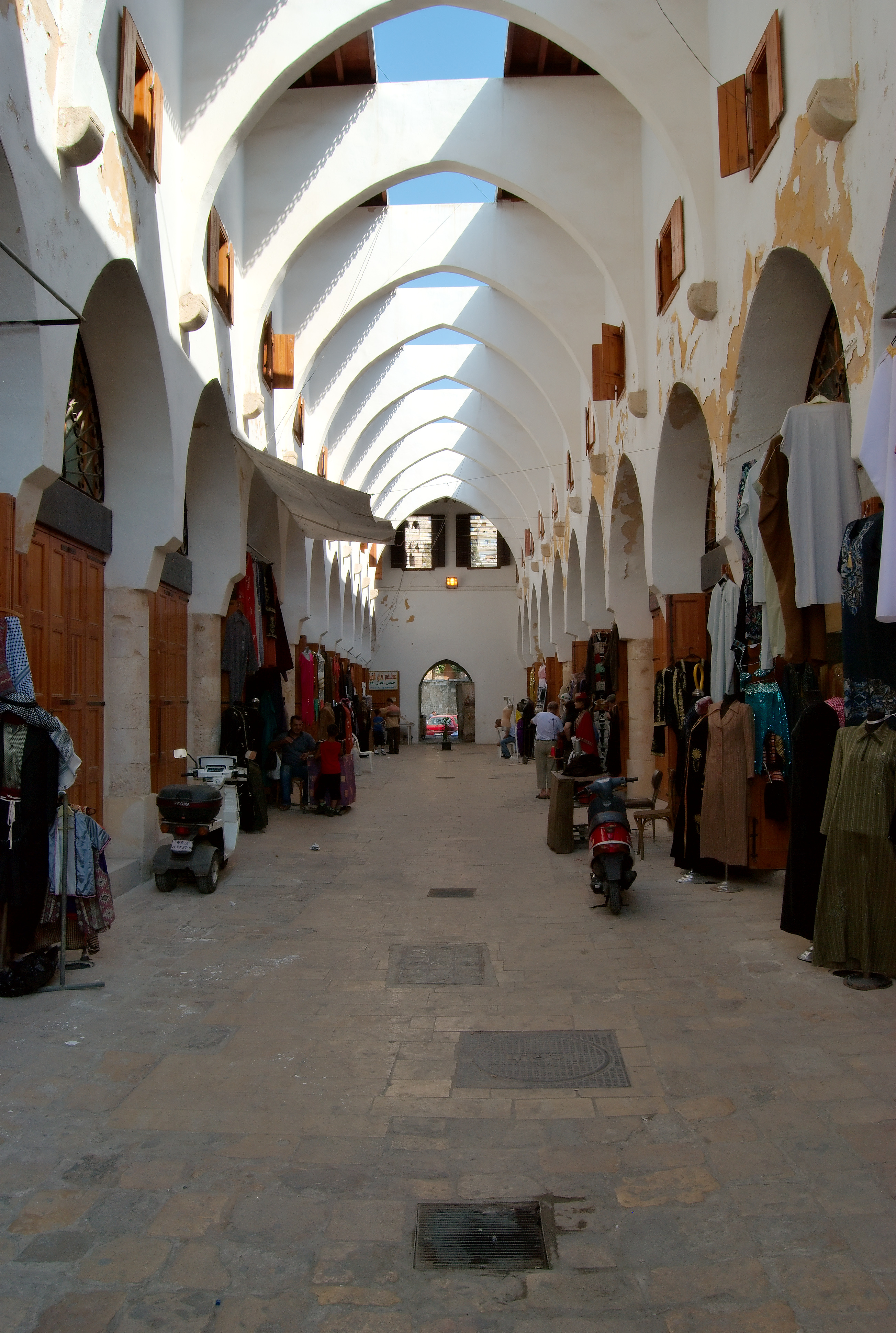 The Tailor' khan in Tripoli, Lebanon